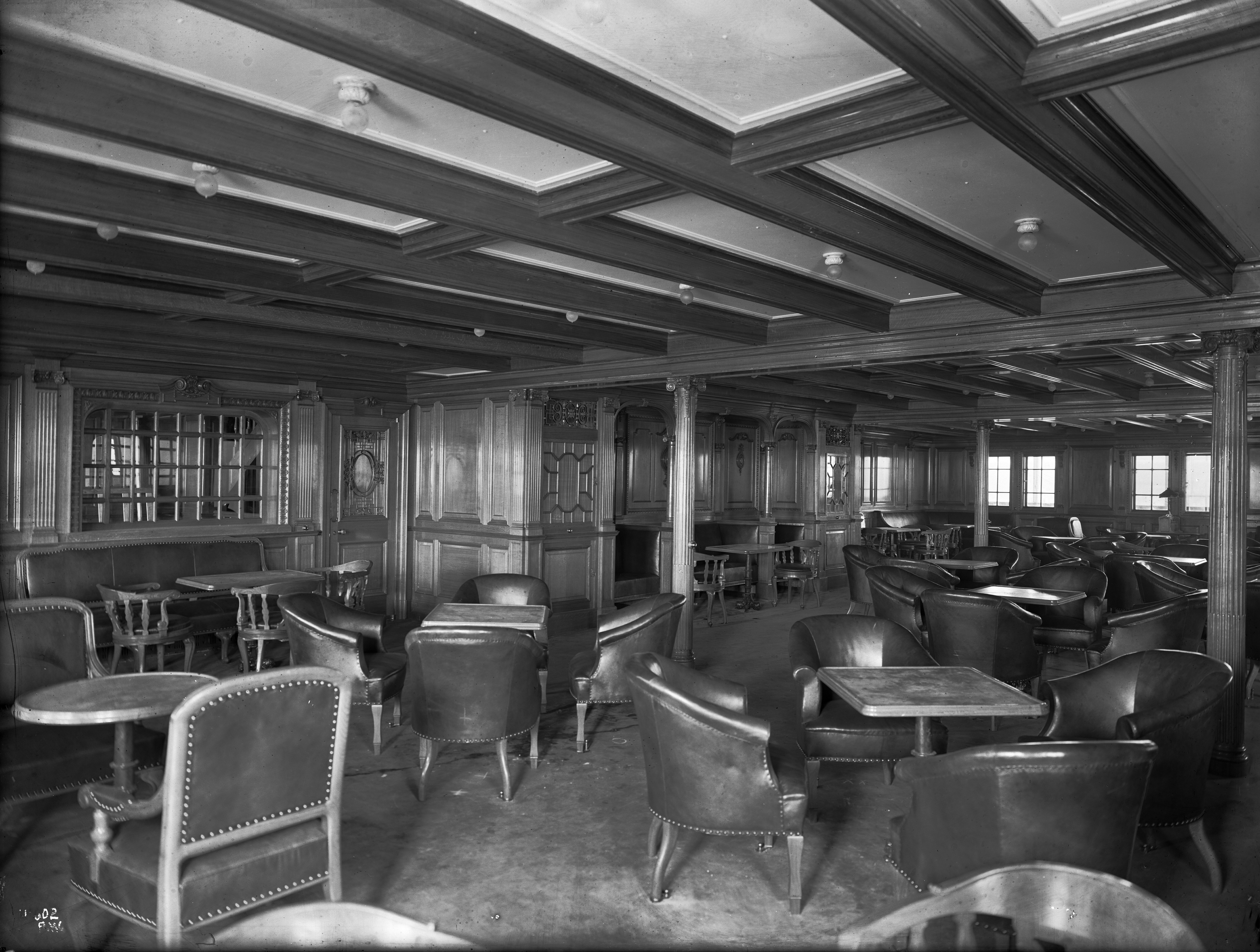 Olympic 2nd Class Smoking Room